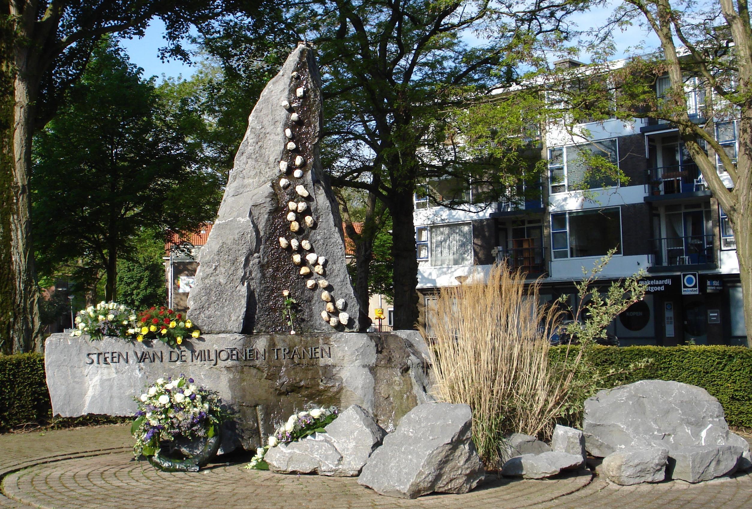 Rotterdam, Kralingen, Oudedijk. Monument Steen van de miljoenen tranen. Rotterdam/The Netherlands.